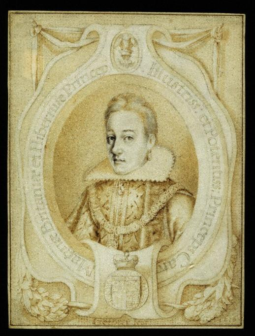 Charles, Prince of Wales, 1616, Sir Balthazar Gerbier V&A Museum no. 621-1882 Techniques - Watercolour, shaded with graphite Place - London, England Dimensions - Height 14.7 cm (including frame and hanging loop), Width 11.4 cm (including frame), Depth 1.6 cm (including frame) Object Type - Strictly speaking, this is a drawing rather than a miniature, which is a watercolour art. But Balthazar Gerbier, an amateur artist, was also a painter of miniatures and the drawing incorporates some aspects of miniature painting, being on vellum (a fine parchment) and using touches of watercolour. People - Gerbier was born in The Netherlands but his early education and training are obscure. He must have been schooled in the accomplishments necessary for courtiers, particularly a knowledge of 'war-like machines'. This recommended him to Prince William of Orange, whose service he entered in 1615. In 1616 he was sent to England to work for the Dutch ambassador, but soon after transferred his service to George Villiers, the Earl, and subsequently Duke, of Buckingham. He became the Duke's domestic architect and adviser on matters of art. In 1628, after Buckingham's assassination, Gerbier transferred formally to the service of Charles I. Historical Associations - This picture was drawn about 1616, when Gerbier had just arrived in England and Charles was formally invested as Prince of Wales. The Latin inscription translates as 'Most illustrious and powerful Prince of Great Britain and Ireland, Prince Charles'. Thus it celebrates the Prince's new standing, an appropriate subject for an ambitious courtier in the making.